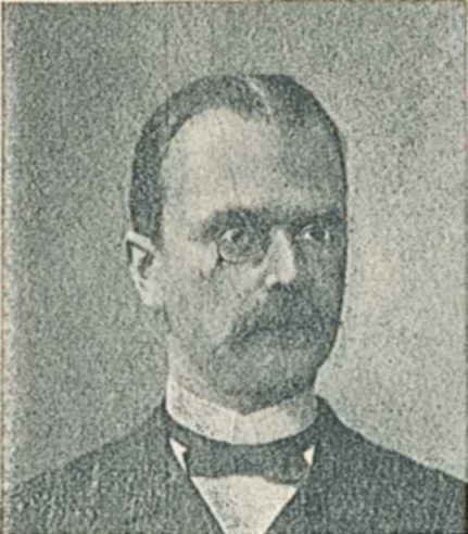 Swedish politician Erik Gabriel Henrik Åkerlund. From page 7 of an album featuring portraits of all the members of the second chamber of the Swedish parliament (Sveriges riksdag) elected in 1897.